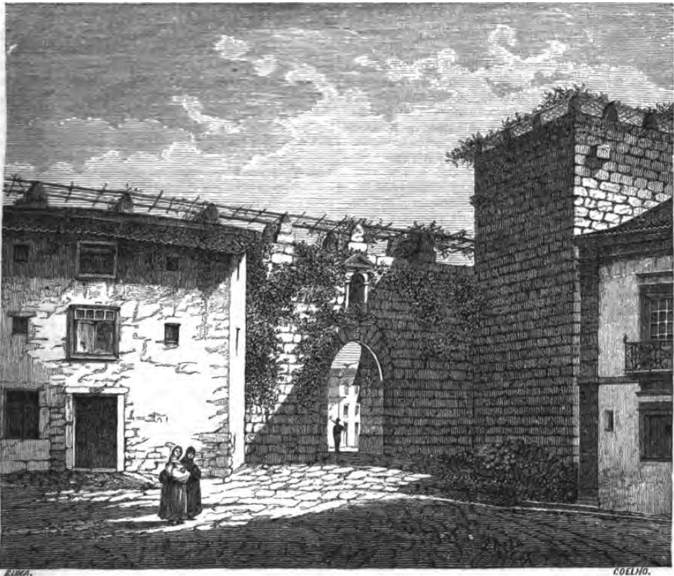 Gate and tower of the ancient mediaeval walls of Braga, Portugal (demolished)